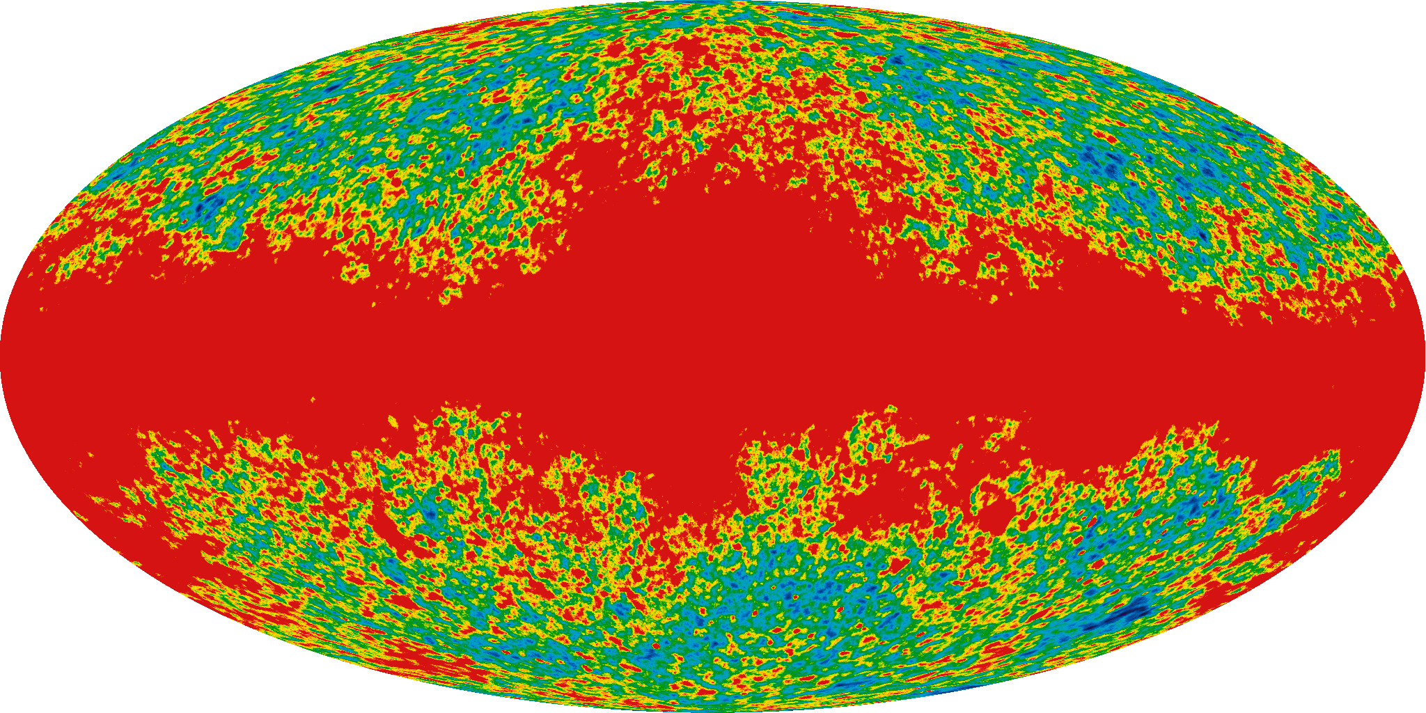 The cosmic microwave temperature fluctuations from the 7-year WMAP data seen over the full sky, along with galactic foreground emission (red). The map is at 23GHz. The average temperature is 2.725 Kelvin. Red regions are warmer and blue regions are colder by 200 microkelvin; the colour scheme is linear.